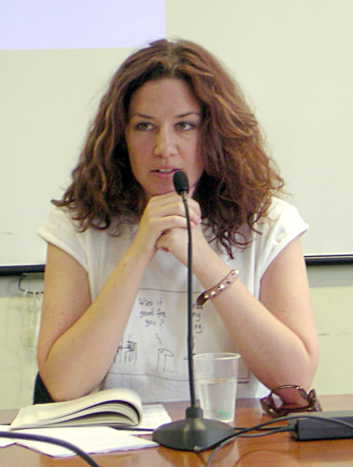 Gia Milinovich at the UKUUG's Open Tech conference in London